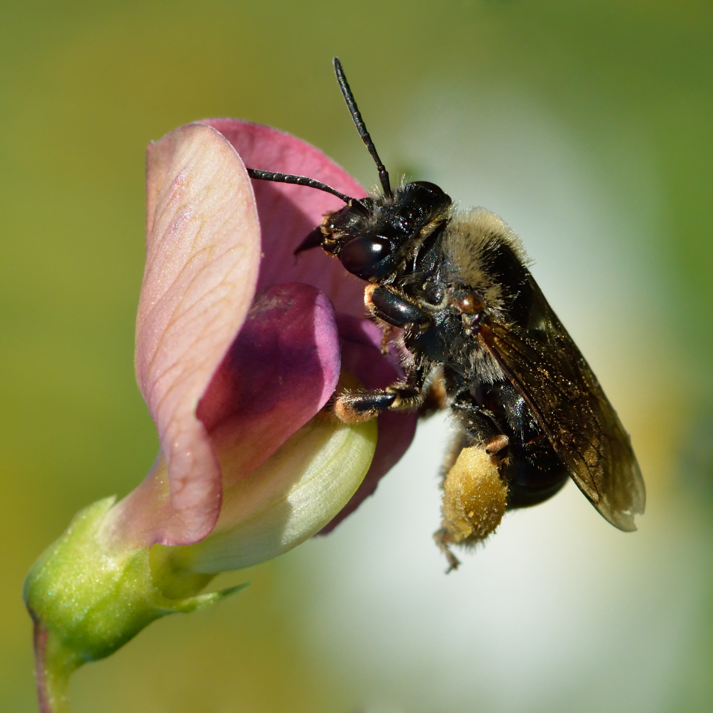 Female long-horned bee (Eucera longicornis) on the narrow-leaved everlasting-pea (Lathyrus sylvestris). Keila, Northwestern Estonia.